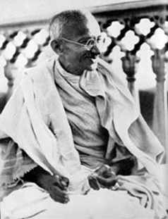 Gandhi at Allahabad in 1931.